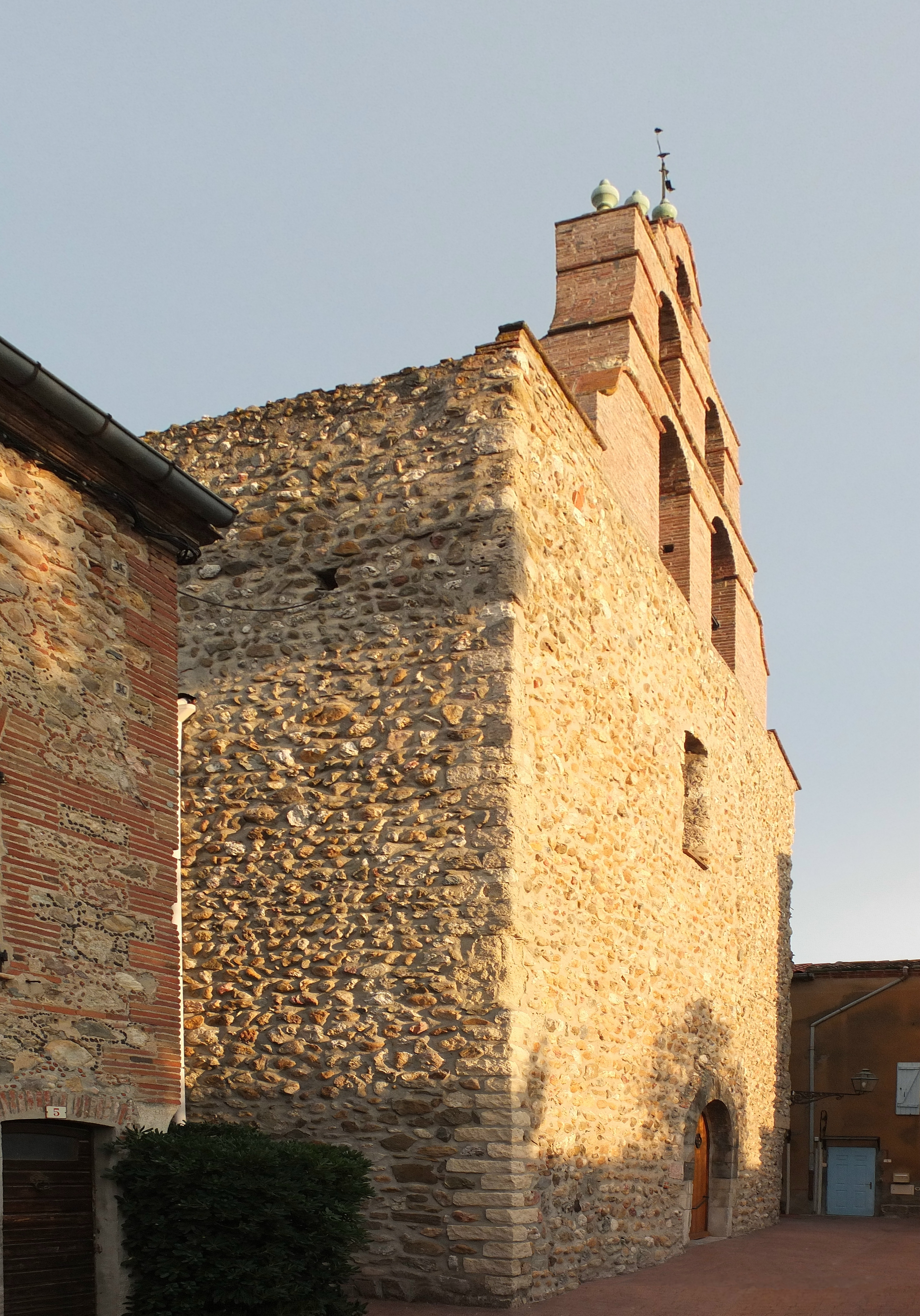 Parish church Saint-Assiscle de Trouillas, Frankreich (view NW)